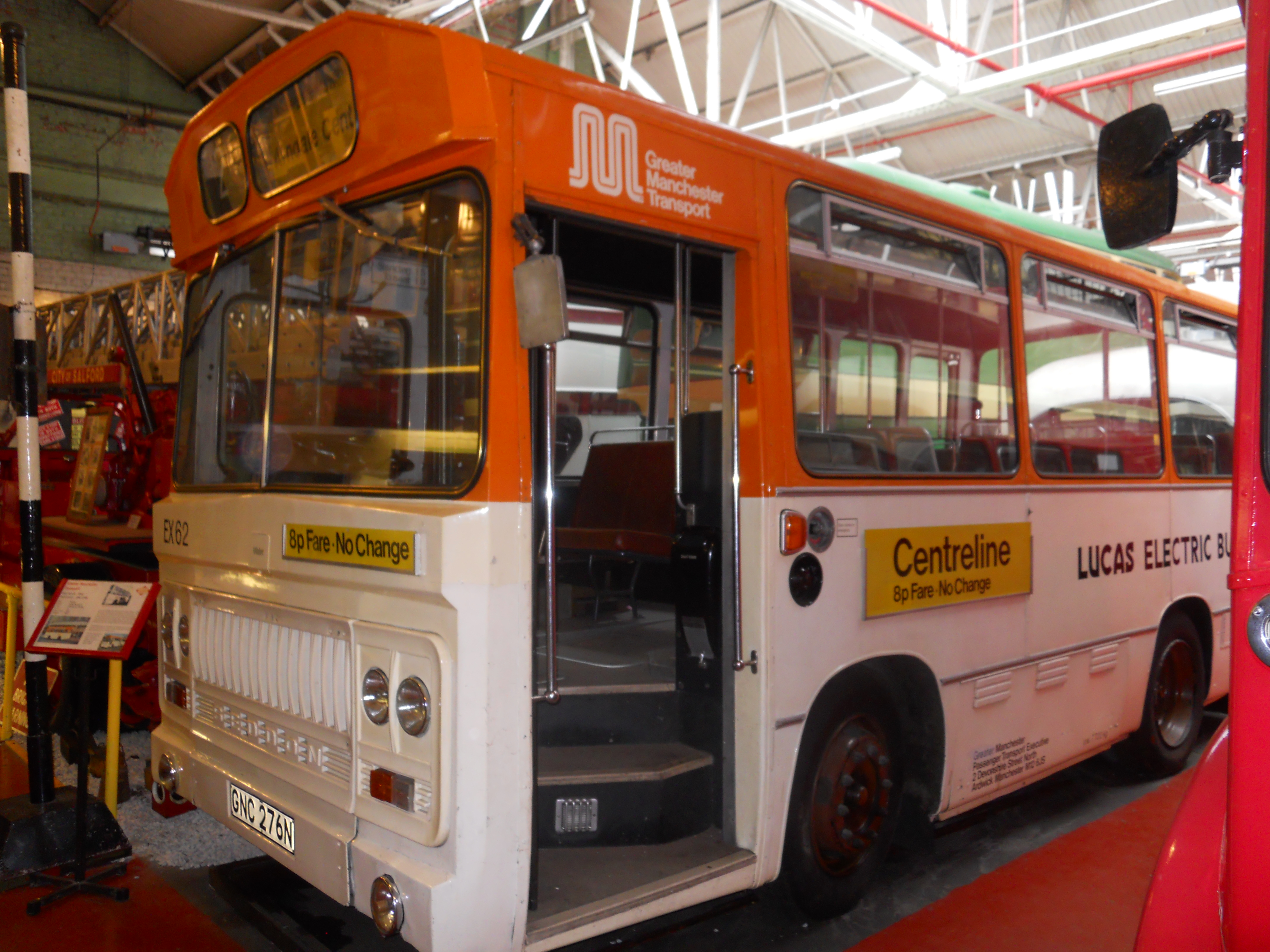 GNC276N - Pennine-bodied Seddon Pennine. New in February 1975 as EX62 then later renumbered as 1362. It was one of the original Centreline buses that linked with Manchester Piccadilly with Oxford Road and Victoria. Taken on Saturday 2nd June